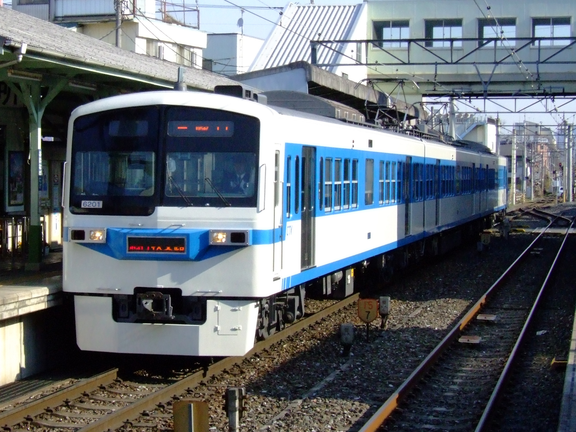 Chichibu Railway type 6000